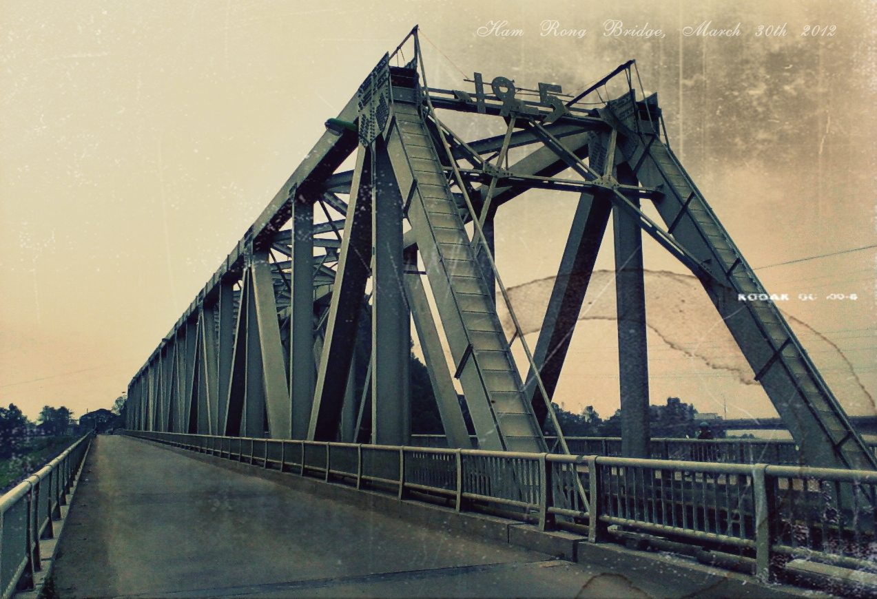 Cầu Hàm Rồng ngày nay!